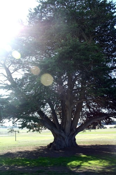 This is the big tree at King's College Warrnambool